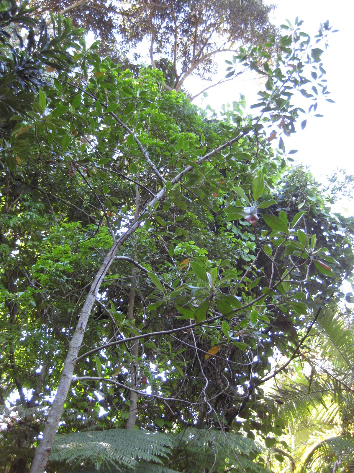 Photographed at the Royal Botanic Gardens Sydney (Australia) in December